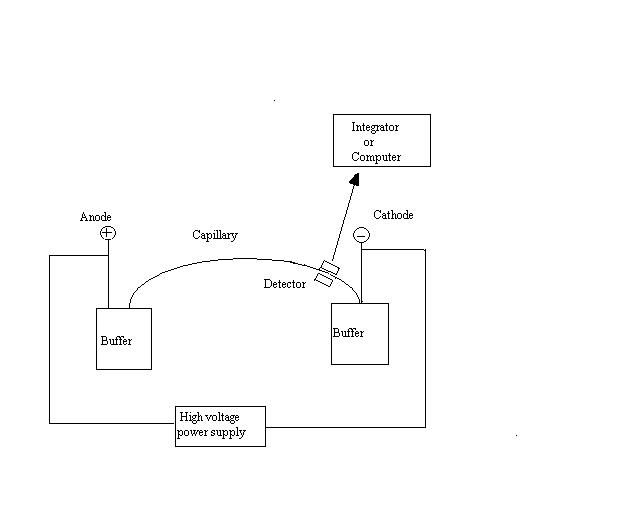 This image was created by myself.